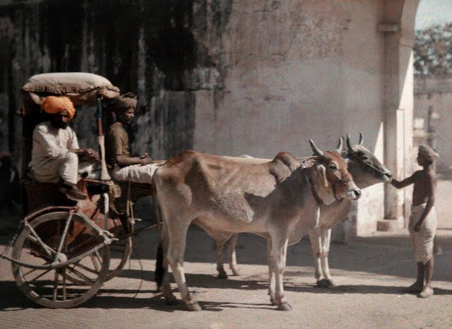 A cattle-drawn carriage carries Jaipur's aristocracy.